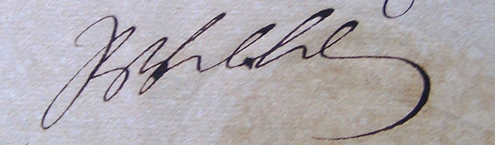 Friedrich Wilhelm I. (Preußen) signature